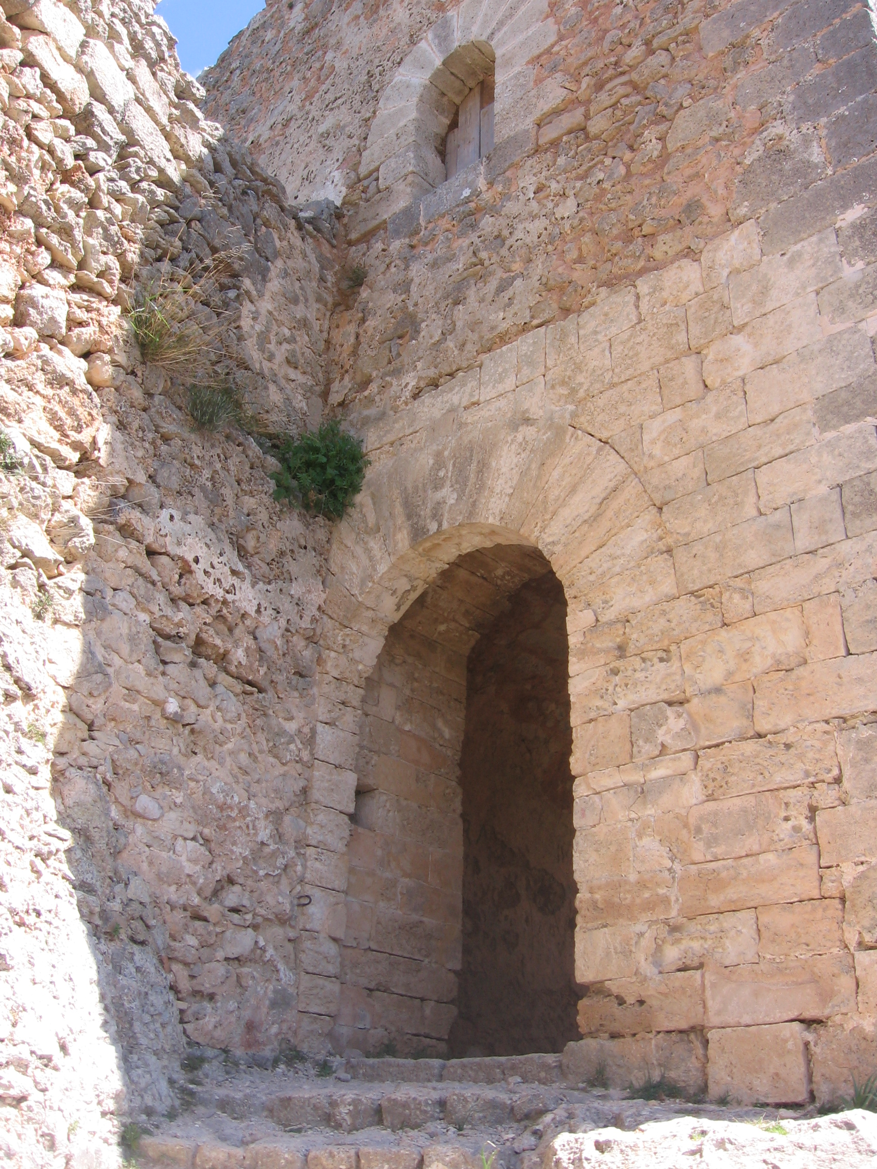 Castell d'Alaró. Alaró. Mallorca.